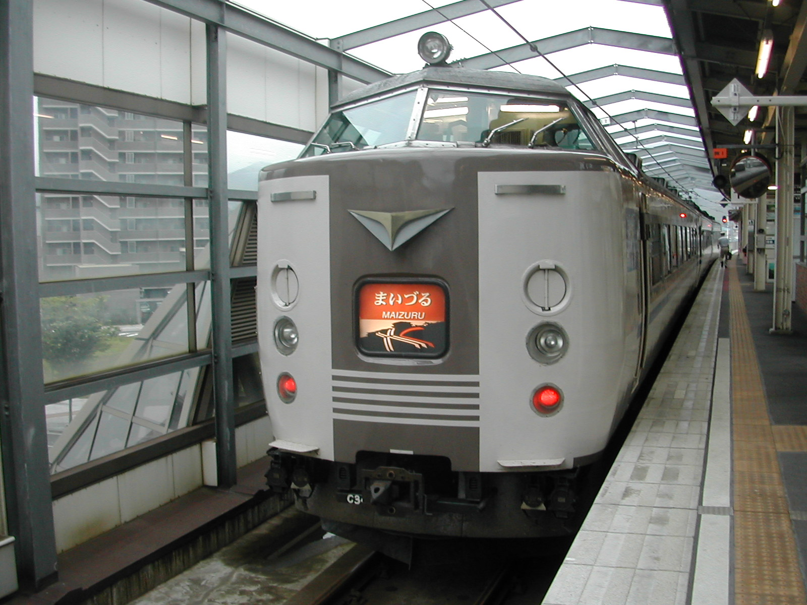 JR West 183 series EMU on the "Maizuru" 2 limited express service at Higashi-Maizuru Station